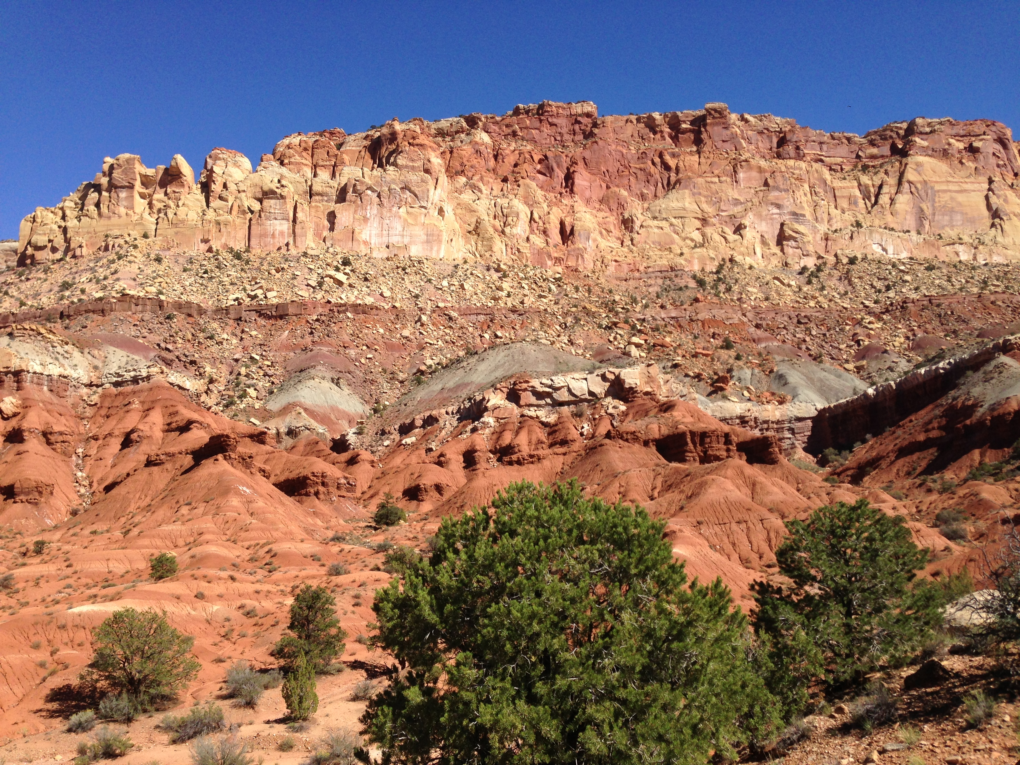 View east from Capitol Reef Scenic Drive 5.1 miles from Utah State Route 24